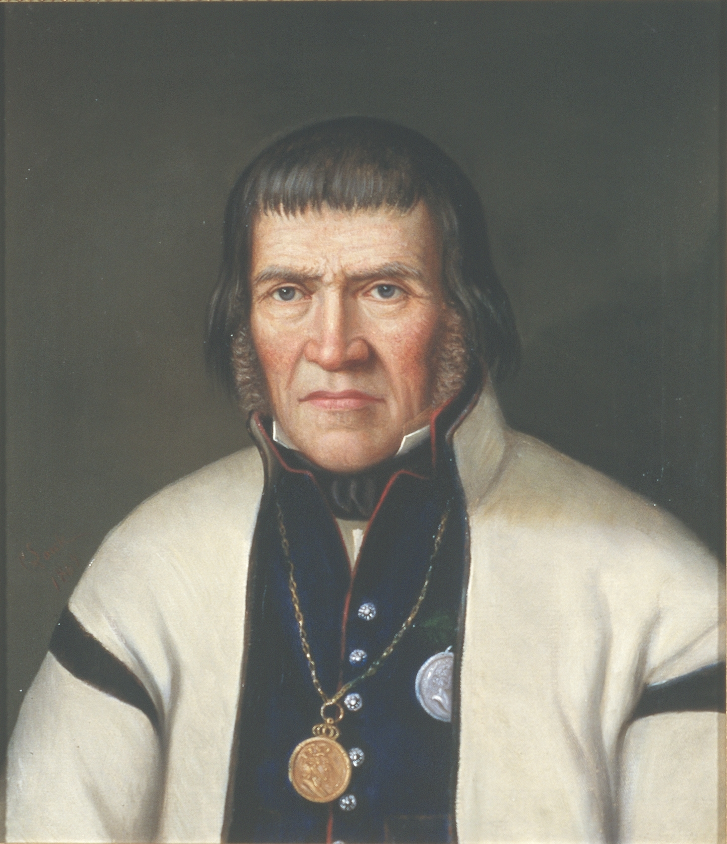 Copy after Mikkel Mandt.